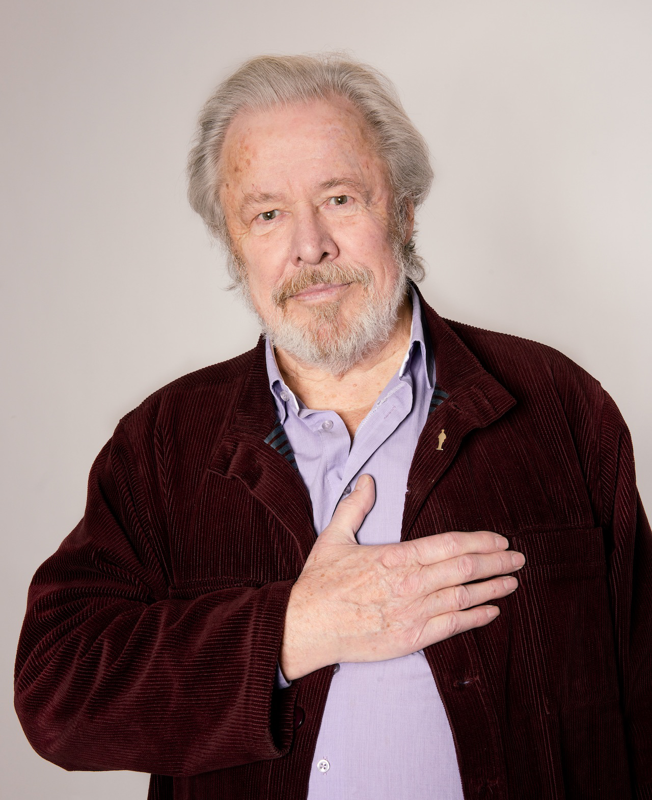 Swedish actor Sven Wollter in a campaign for Hjärt-Lungfonden, 2014.